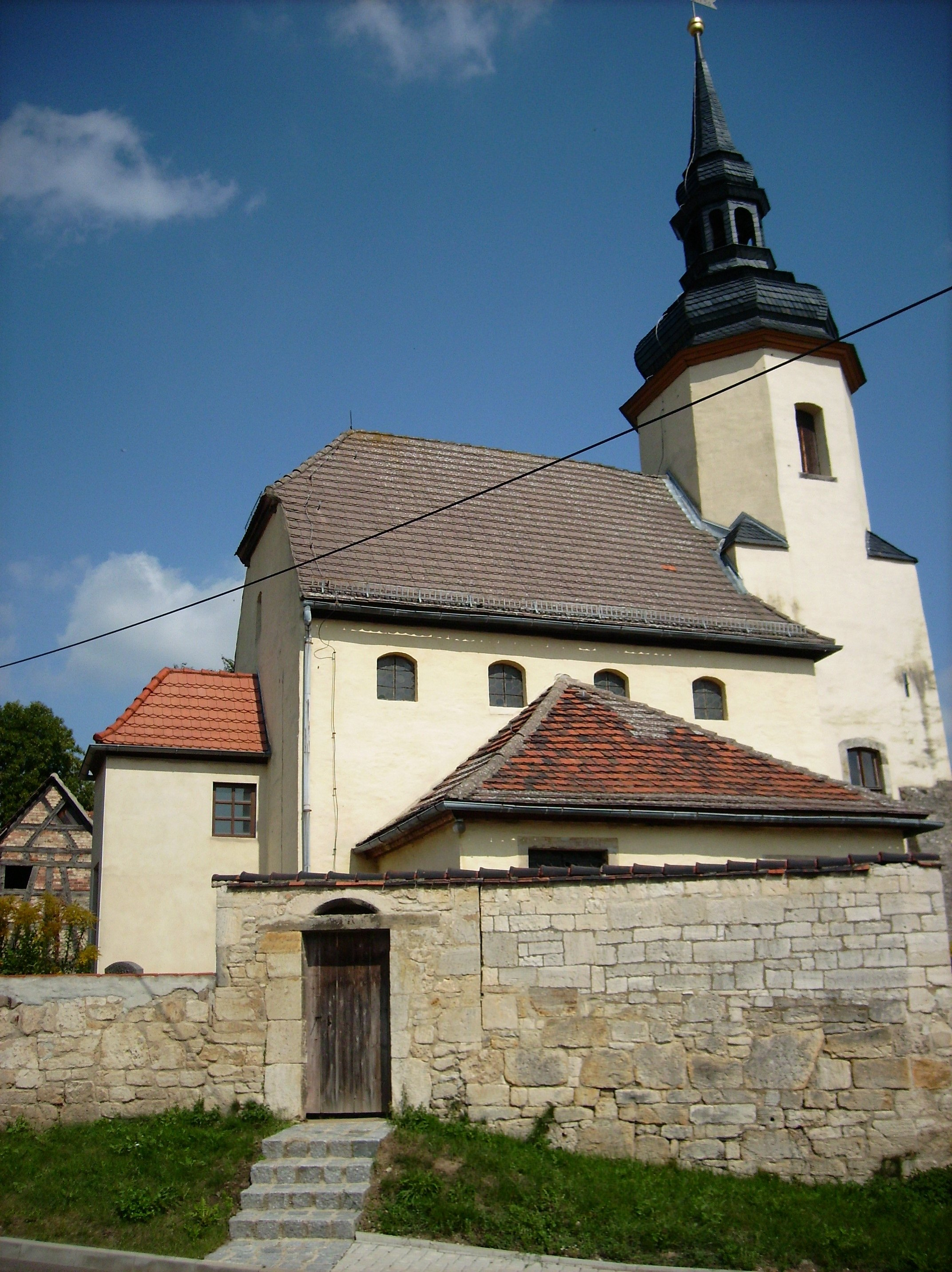 Church of the village of Boblas (Naumburg/Saale, district of Burgenlandkreis, Saxony-Anhalt), view from the south-west